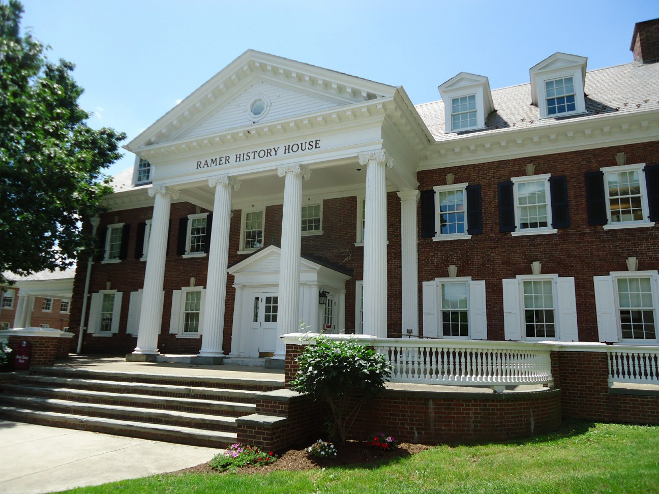 A photo from a campus tour of Lafayette College in Easton, Pennsylvania. Lafayette is a liberal arts college on a hill near the Delaware River.